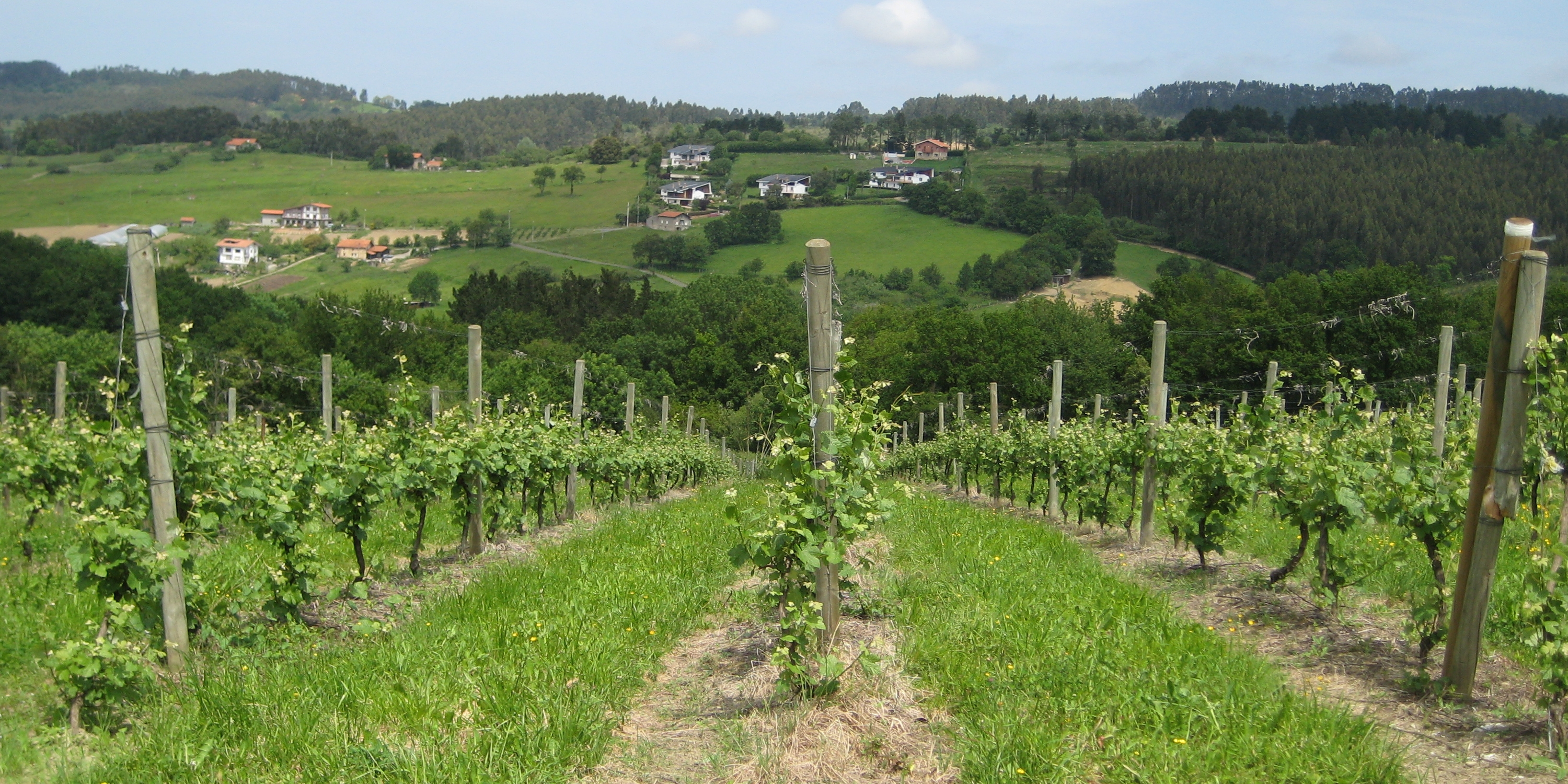 Farms and houses of Arondo, and vineyard in Mota, near BI-2731 road, Goierri, Erandio, Biscay, Spain